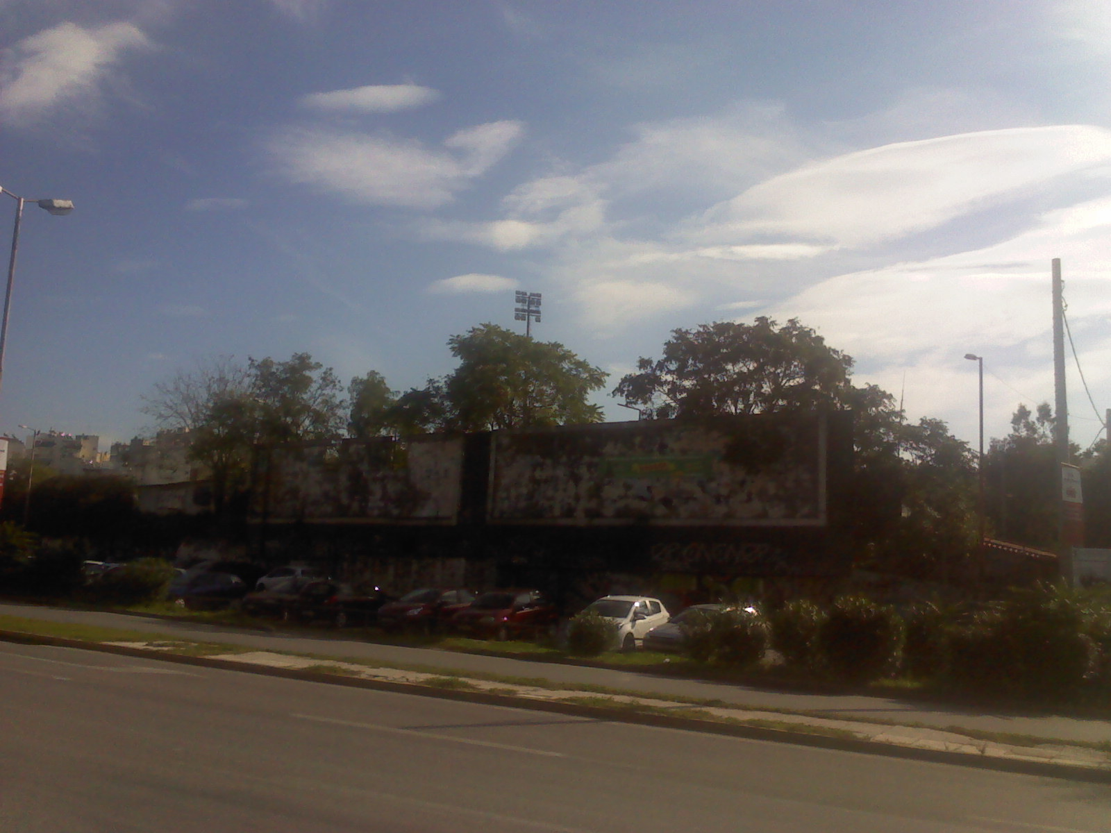 Municipal Stadium Neas Ionias